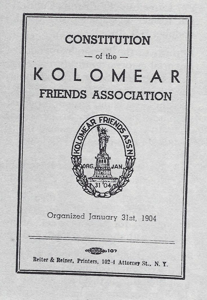 Kolomear Constitution